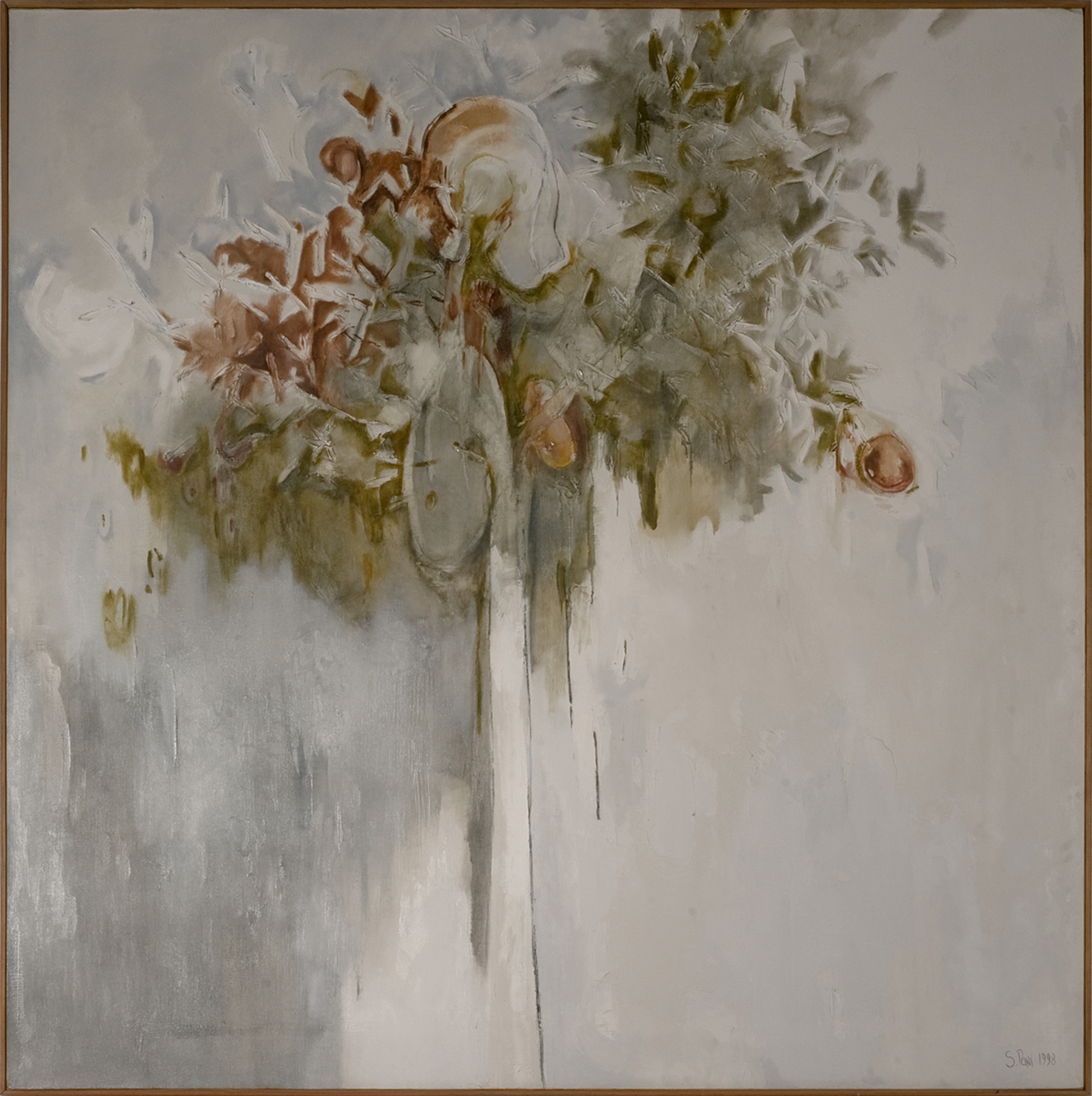 Wholeness by Sandra Pani